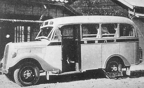 OPR(Okinawa Prefectural Railways) Bus